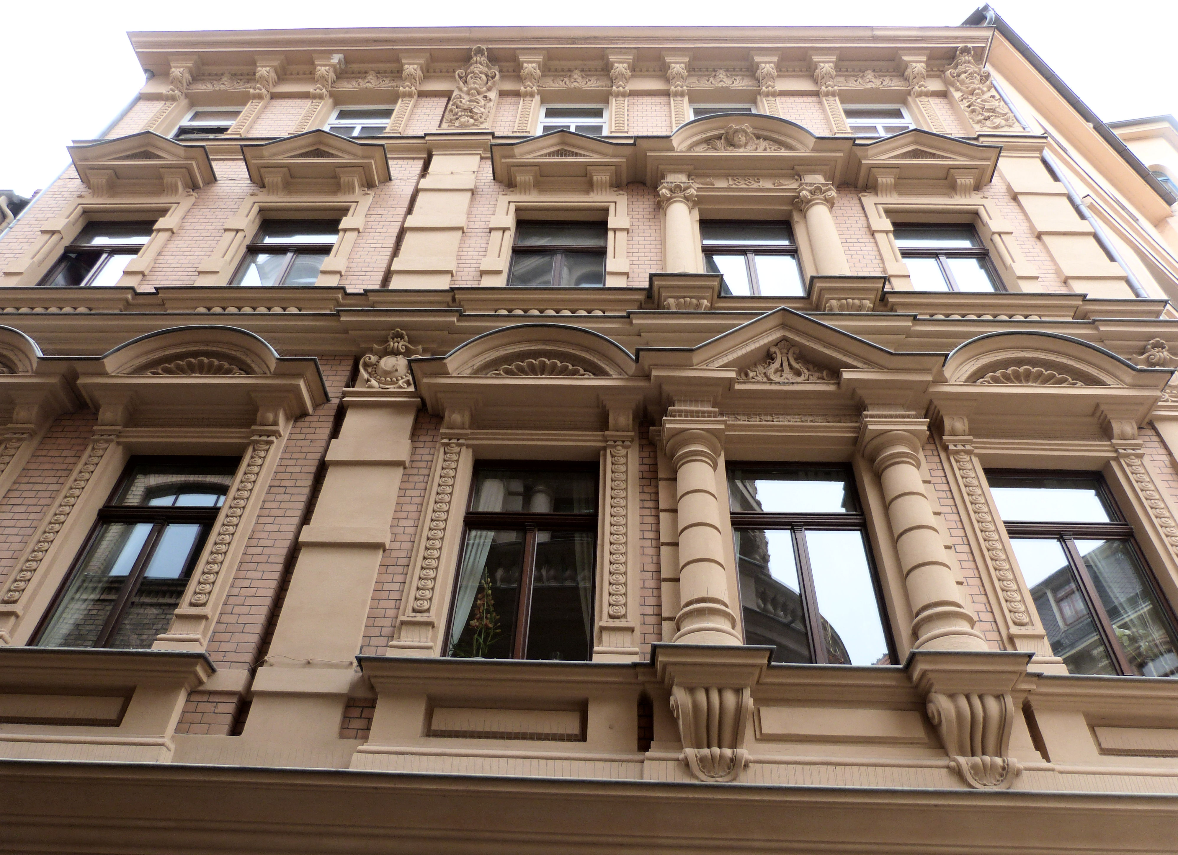 Kleine Märkerstrasse No. 11, Halle (Saale)